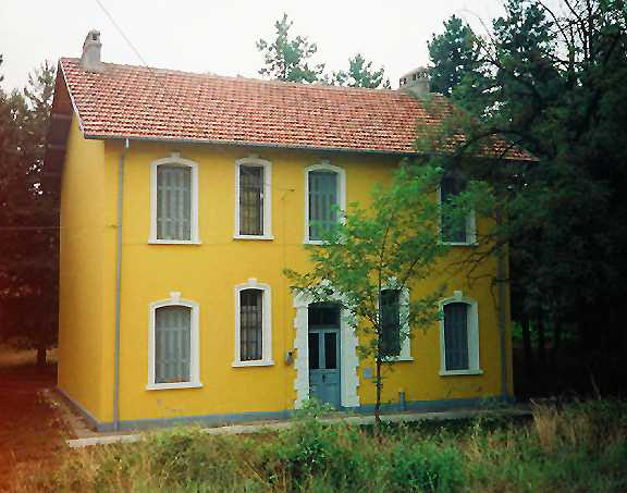 Outside view, image from the The Florina Art Gallery, Florina, West Macedonia, Greece